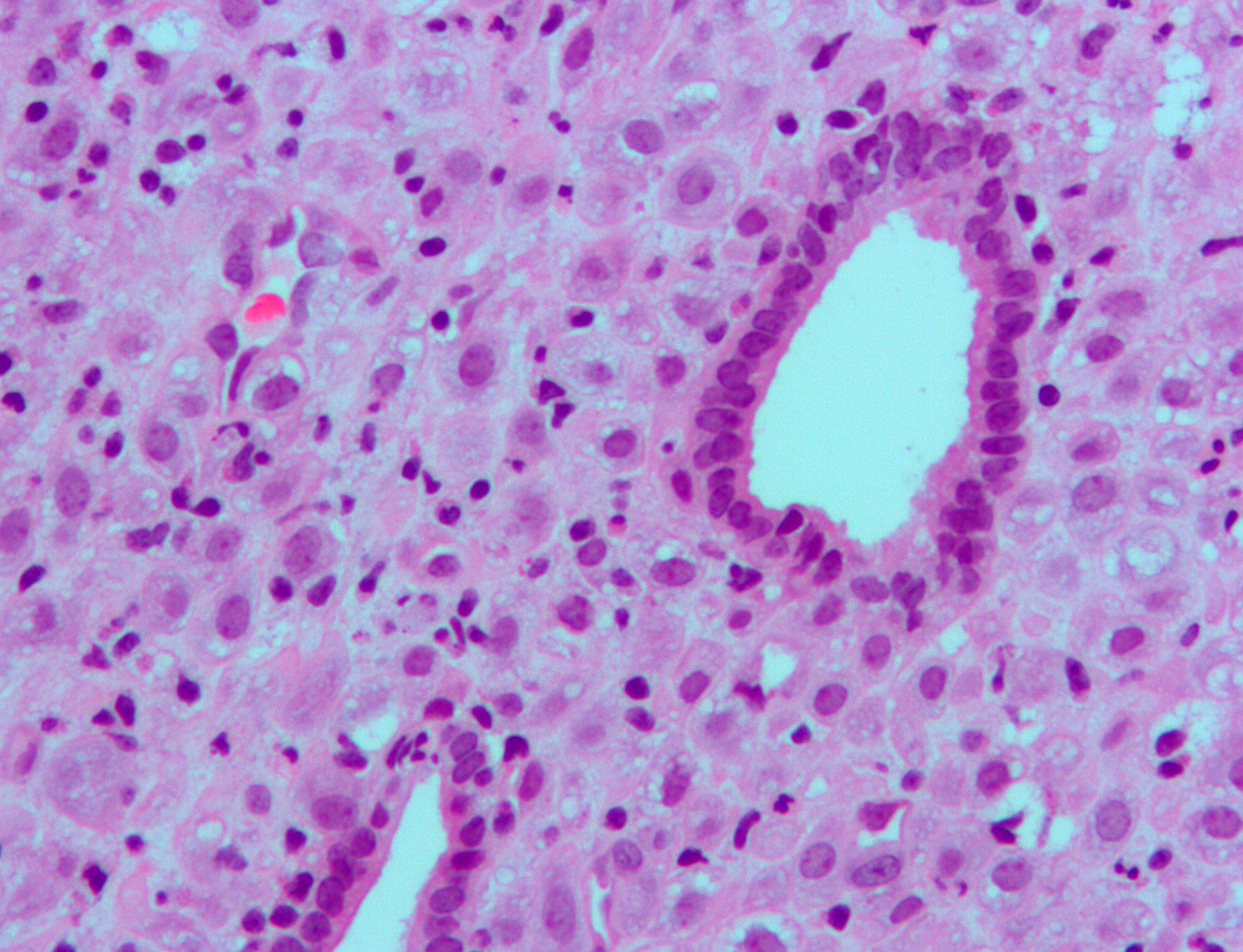 High magnification micrograph of endometrium with (mitotically) inactive glands and decidualization due to exogenous progesterone (OCP use). H&E stain. Endometrial curretting specimen. Definitions: Inactive (endometrial) glands have a single layer of cells and no mitotic activity. Decidualization is characterized by NEW changes: Nucleus central location, Eosinophilia of cytoplasm, Well-defined cell borders. It is in response to progesterone and also seen in pregnancy. Related images Low magnification Intermediate magnification High magnification